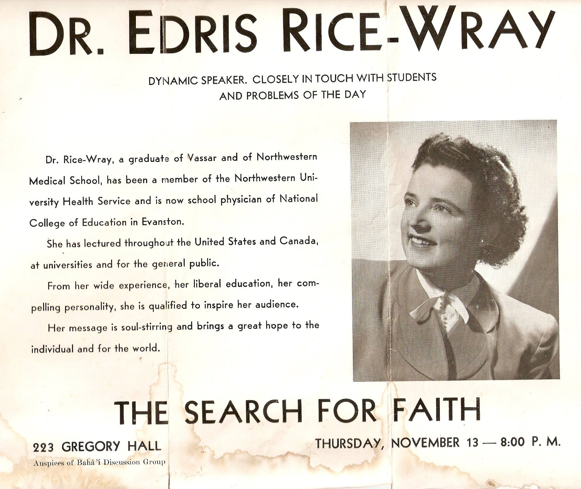 Vassar and Nothweastern for Dr. Edris Rice-Wray